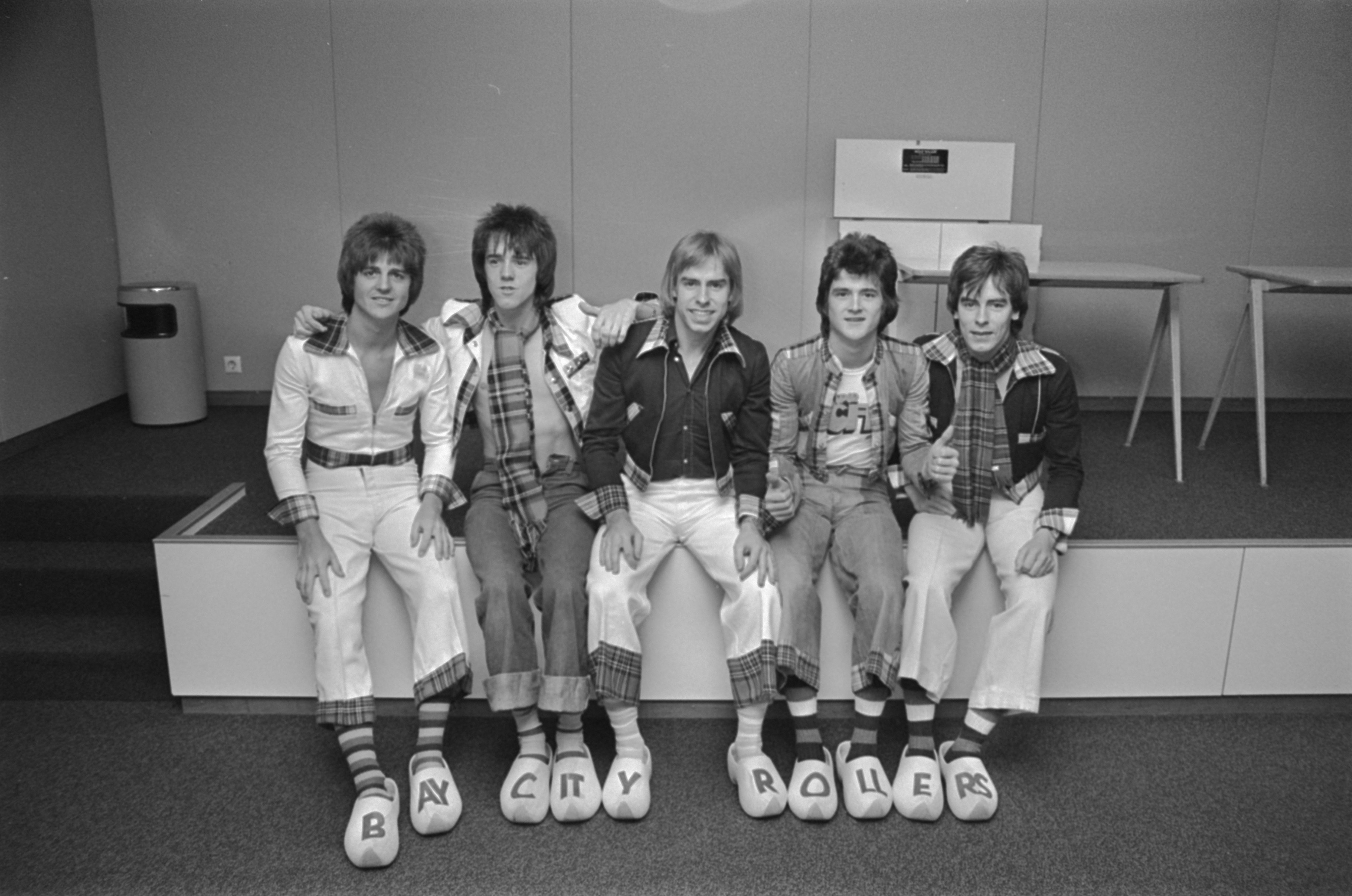 British musical group Bay City Rollers wearing wooden shoes, at Schiphol Airport (The Netherlands), 14 Febr 1976